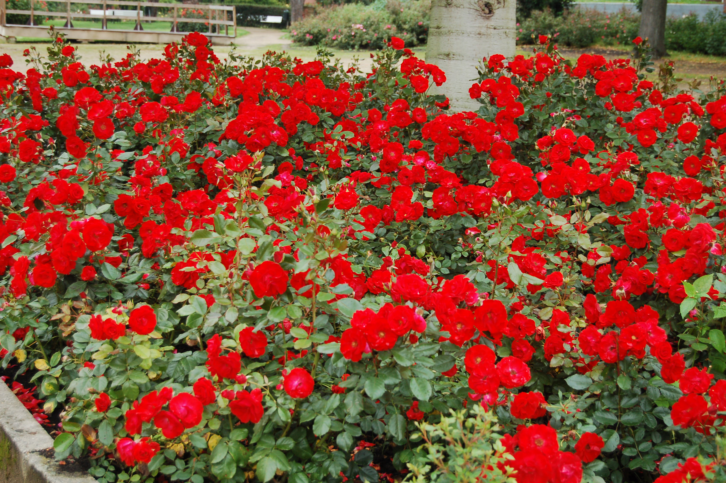 Edelrose Montana (Tantau 1974)